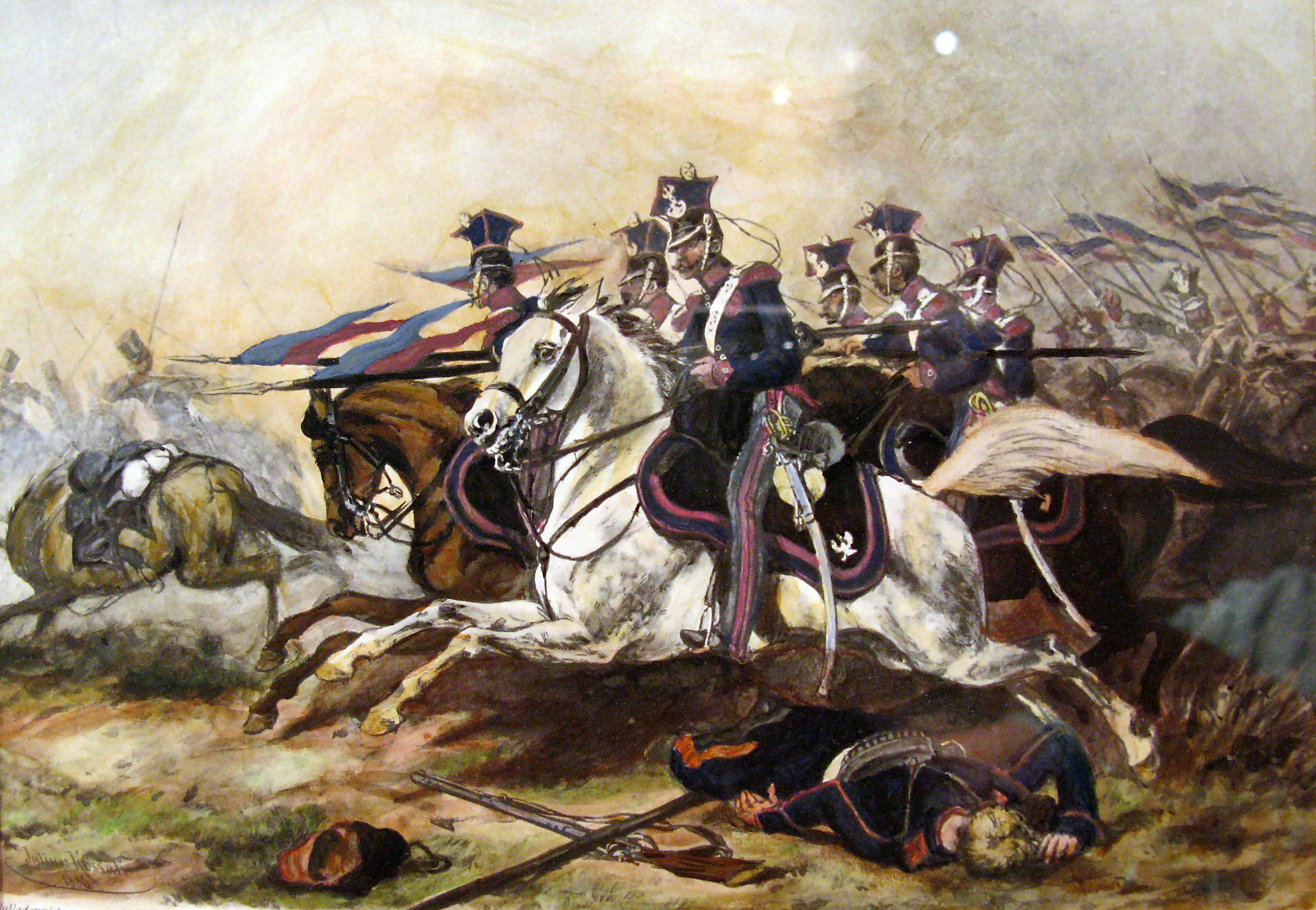 Charge of Poznań Cavalery during November Uprising by Juliusz Kossak